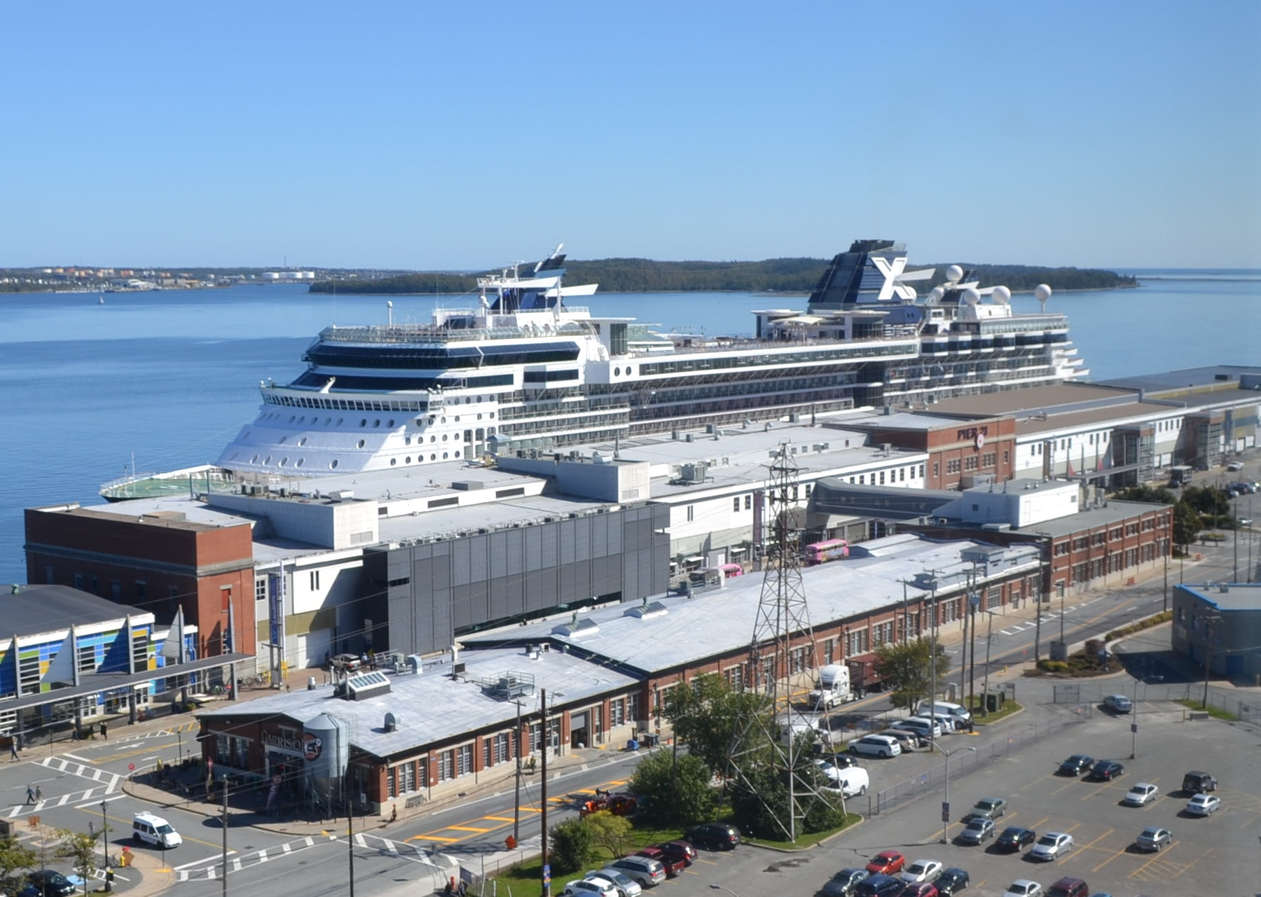 The cruise ship cruise Ship Celebrity Summit docked at the Port of Halifax at Pier 21, the former immigration terminal in Halifax, Nova Scotia, Canada photographed from the Halifax Westin Hotel on September 24, 2014. The ship is docked beside the Pier 21 Landing Deck and shed where immigrants were interviewed and allowed into Canada or held in quarantine. An overhead walkway connects to the Immigration Annex building where immigrants cleared customs and boarded trains to travel across Canada to their destinations. Grey metal siding shows the location of the Nova Scotia College of Art and Design along with the aluminum silo of Garrison Brewery which occupies the former immigration facility along with the Canadian Museum of Immigration at Pier 21.